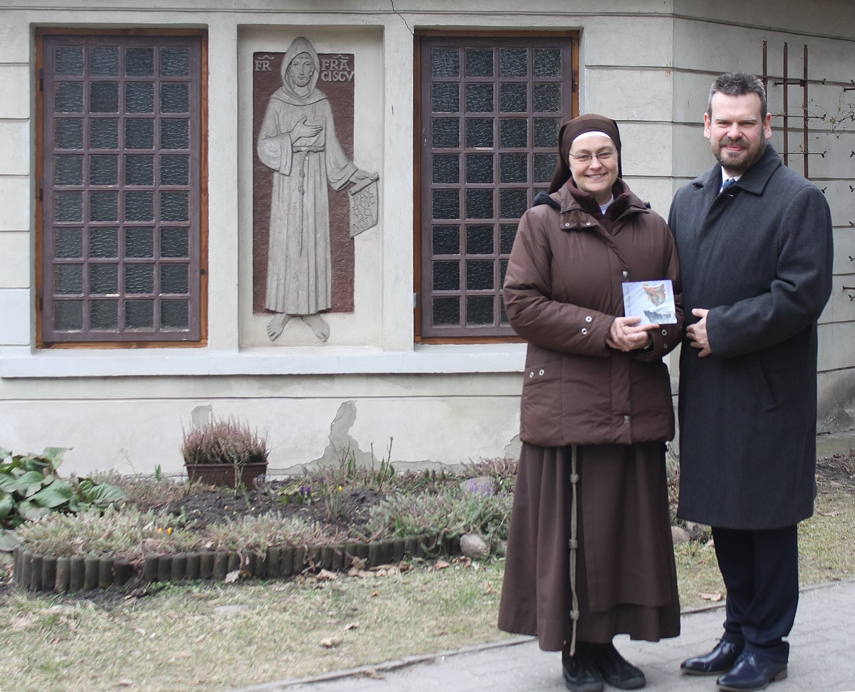 Pijarowski with music gift in Laski.